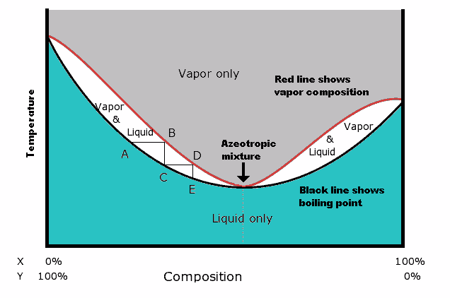 Phase Diagram of Positive Azeotrope